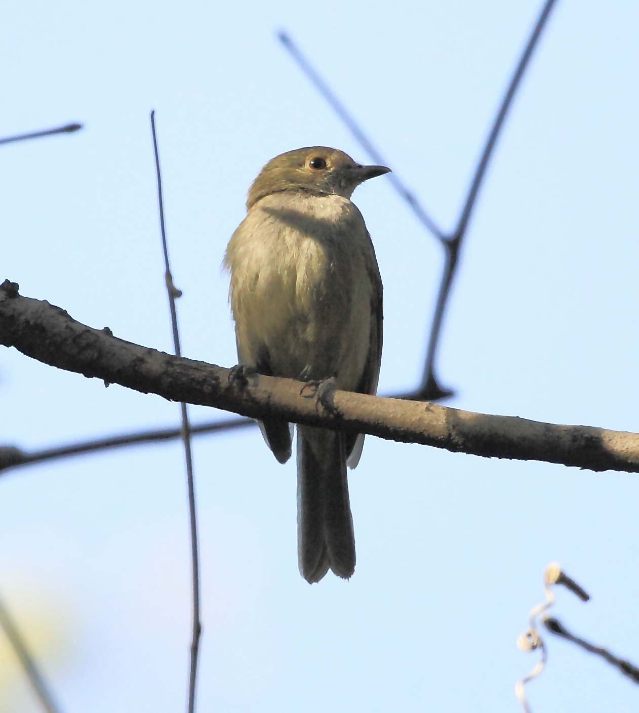 Pale-bellied tyrant-manakin at Dourado - SP - Brazil